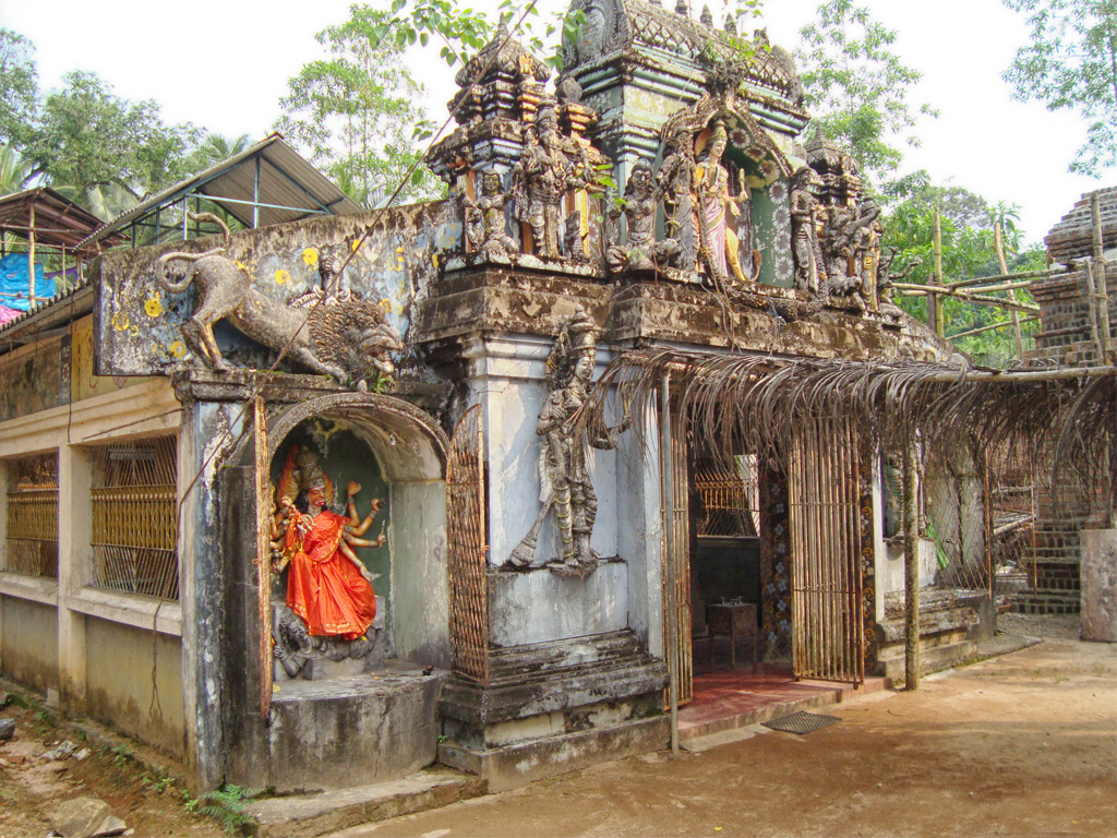 Ingiriya Religious02